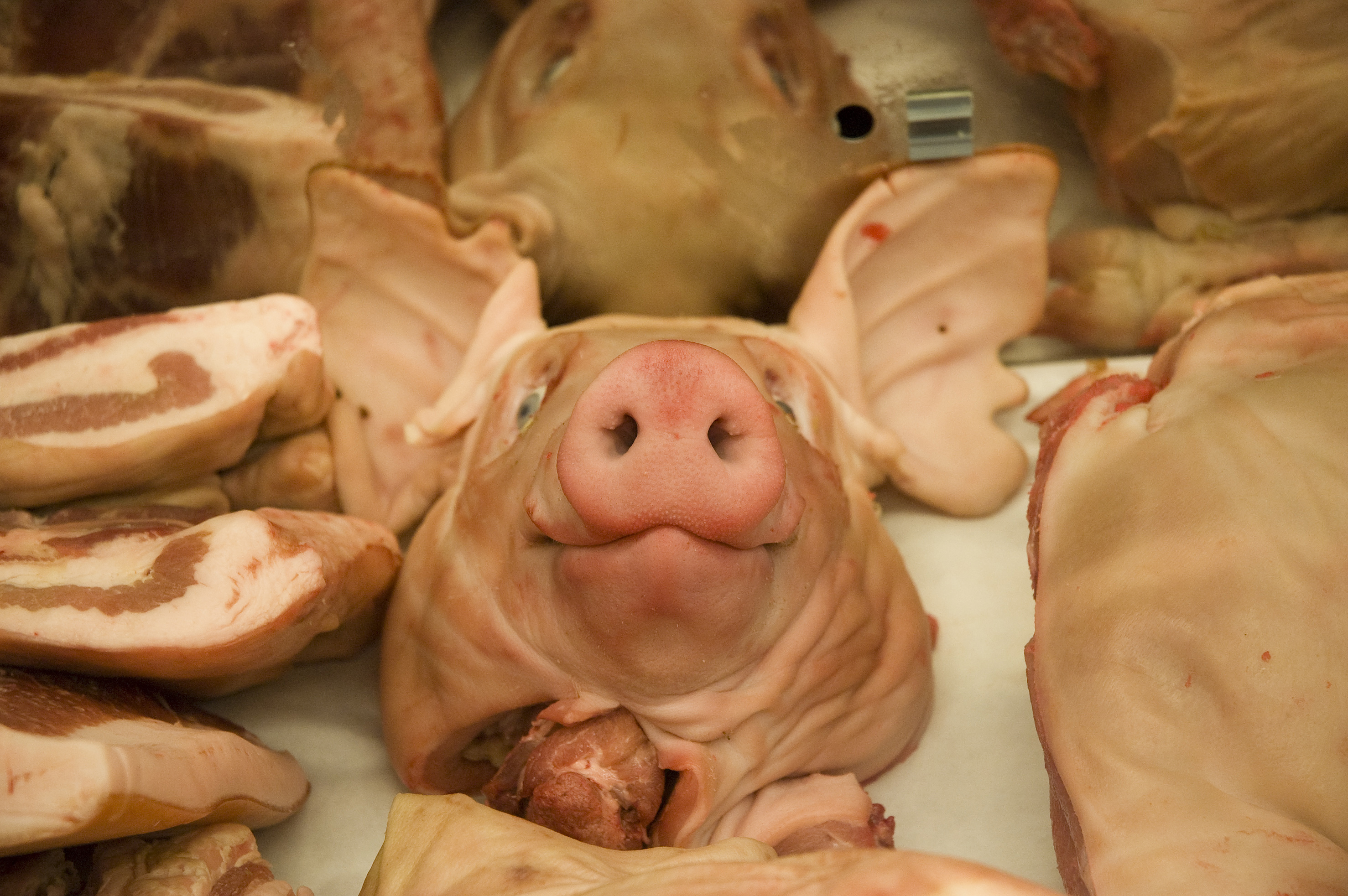 Pig head for sale at Cleveland's West Side Market